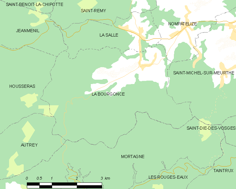 Map of French municipality La Bourgonce